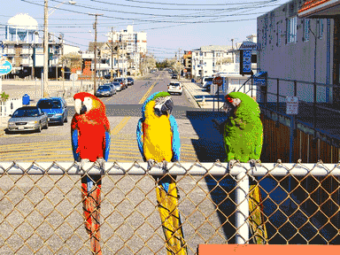 Amiga Half-Bright example image. Original image